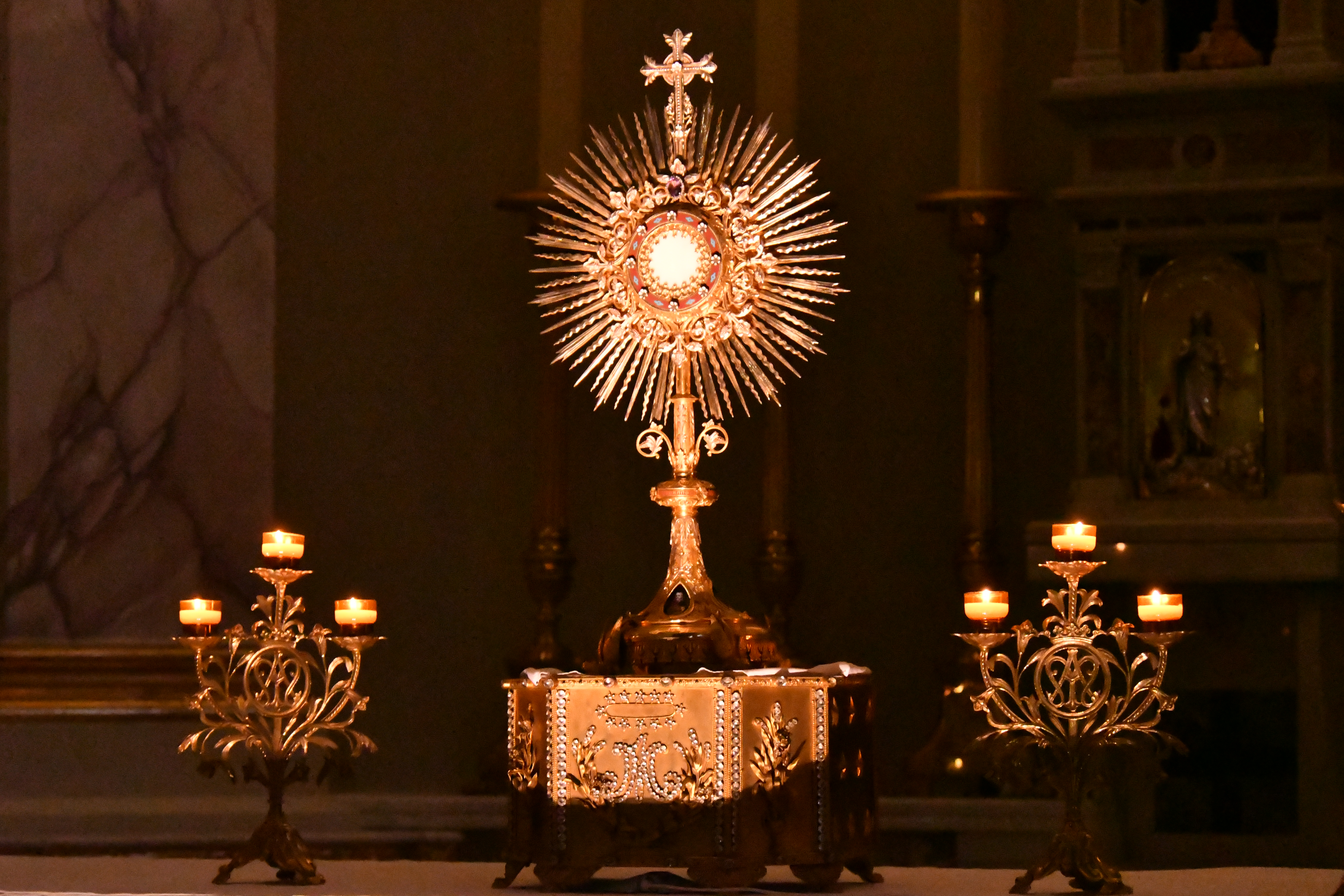 Adoration of the Blessed Sacraement of the Church of the Sacred Heart of Monaco